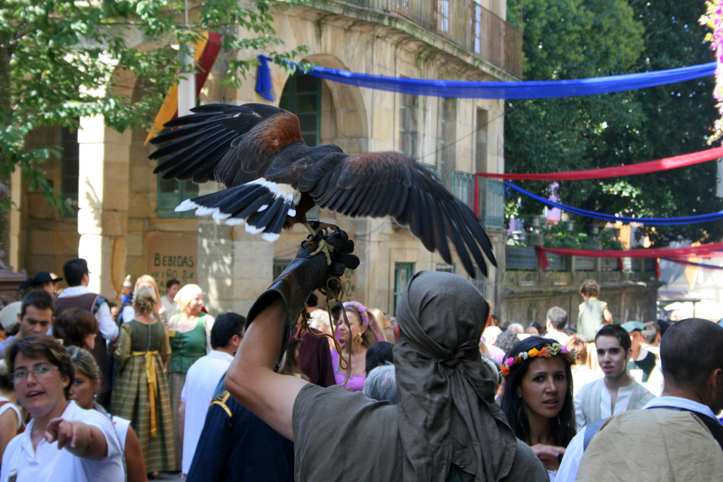 View of the street during the Feira Franca, a medieval-style celebration on Pontevedra, Galicia (Spain).